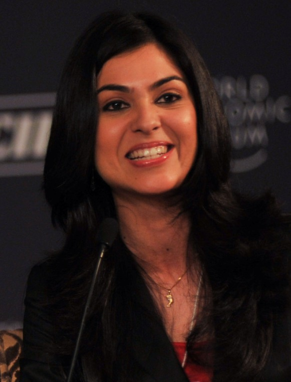 Shereen Bhan, Indian journalist and television presenter, speaking at the Impatient India session during the World Economic Forum's India Economic Summit 2009 held in New Delhi.